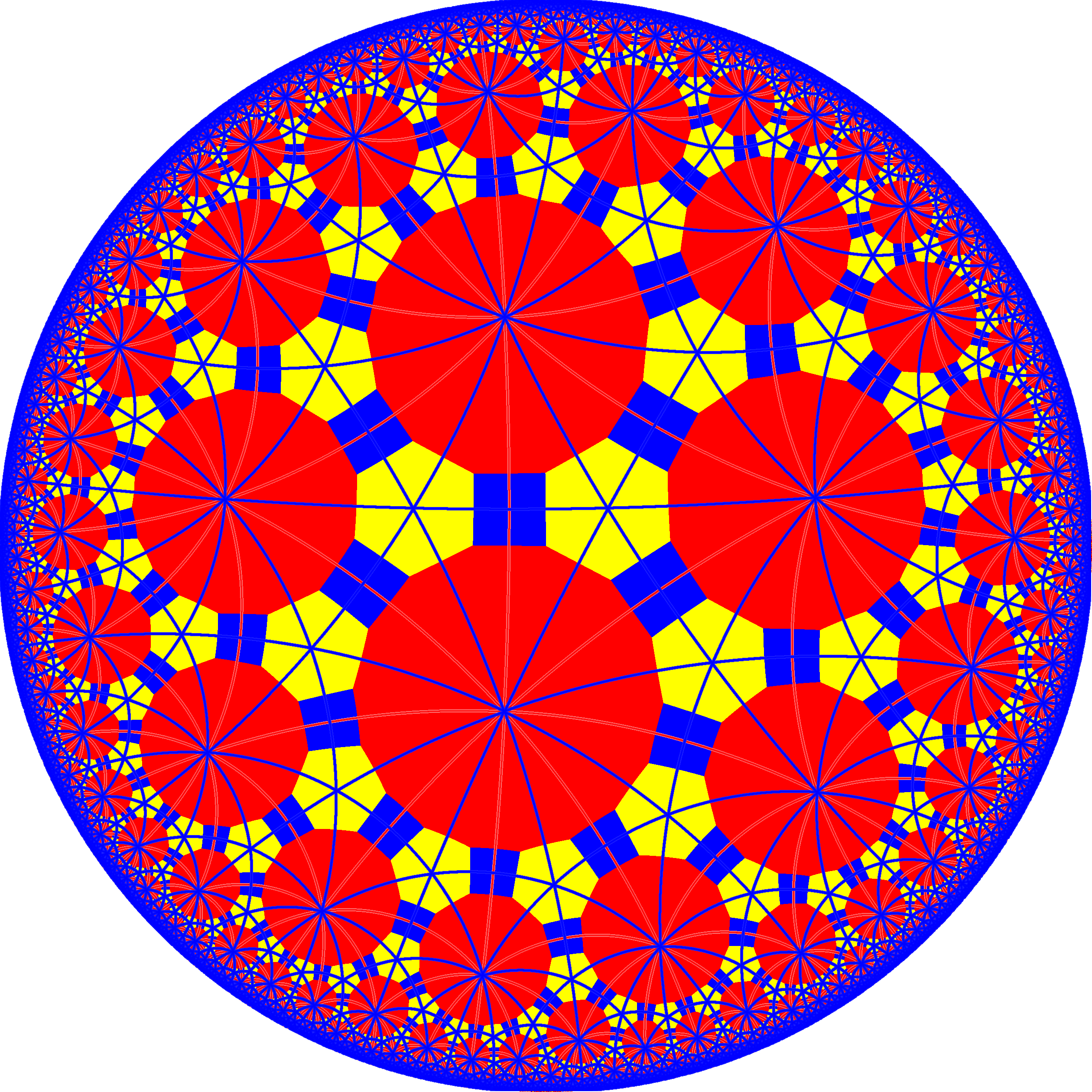 File:H2_tiling_238-7.png with File:832_symmetry_000.png overlay